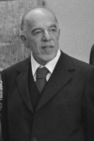 Sir Ernst Gombrich, an Austrian-English art historian.